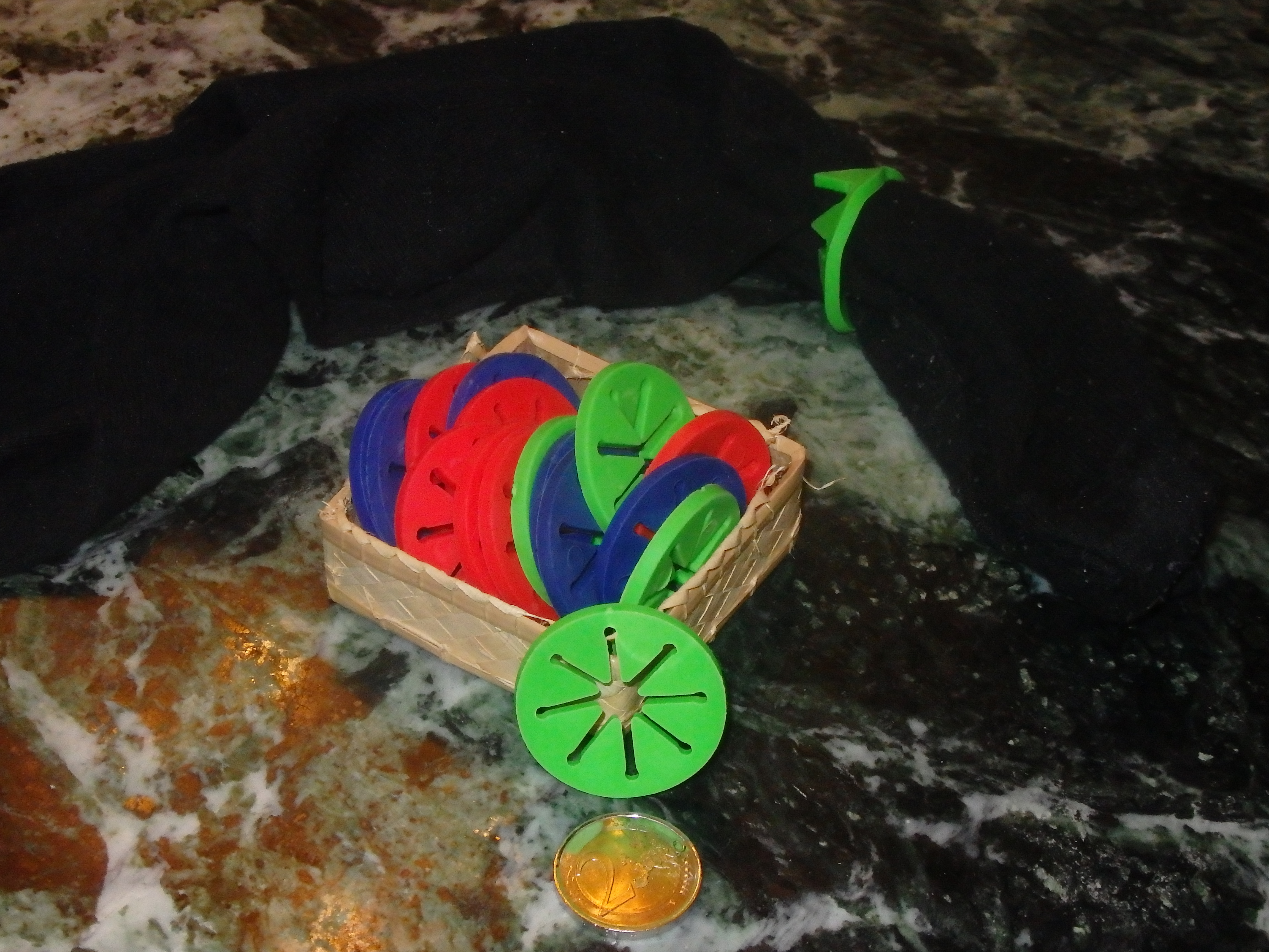 Round clips or fasteners to keep sock pairs together in the washing machine.